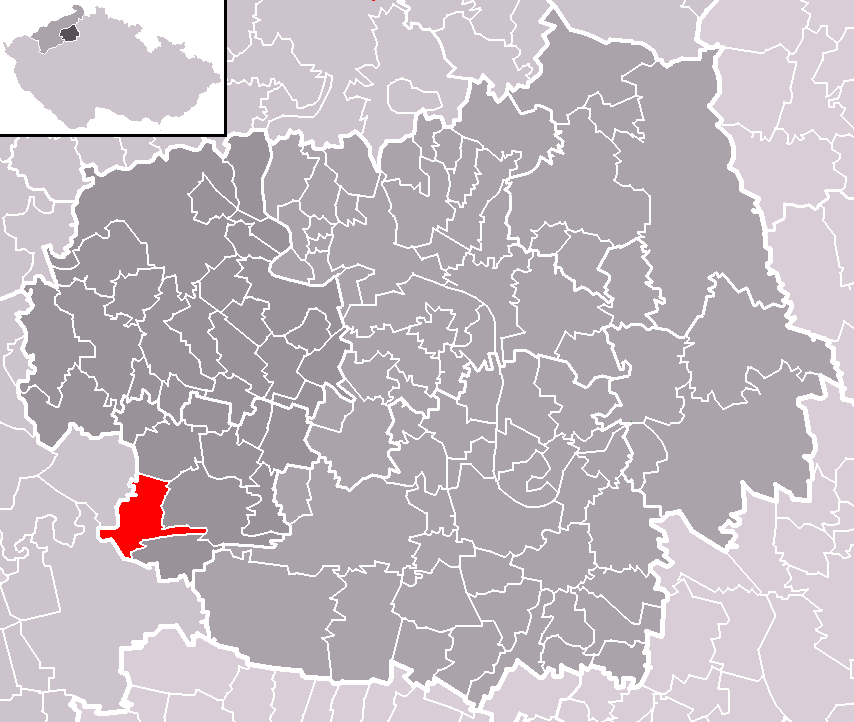 Location of Křesín municipality within Litoměřice District and administrative area of Lovosice as a Municipality with Extended Competence.